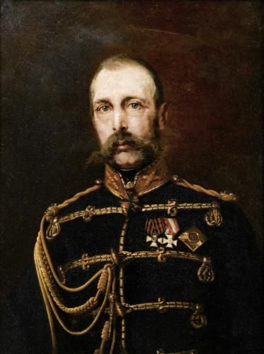 Portrait of Alexandrer II of Russia, Konstantin Egorovich Makovsky, oil on canvas, XIX century.